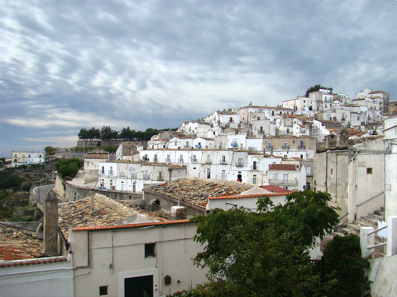 Monte Sant'Angelo, Apulia, Italy.